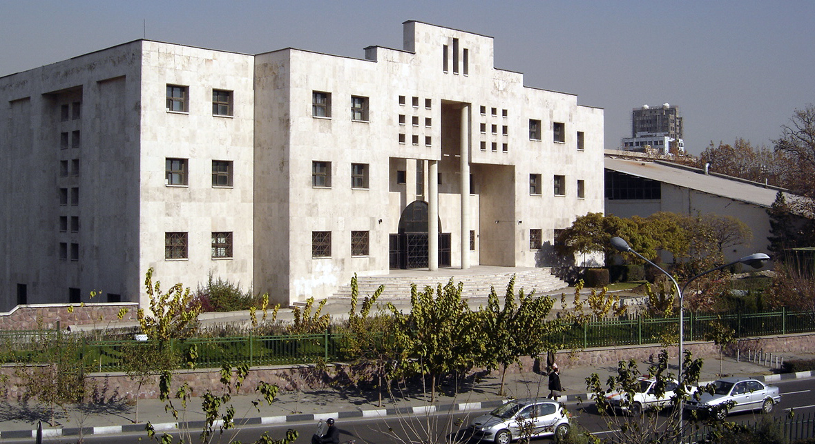 University of Tehran Faculty of Engineering, North Kargar campus